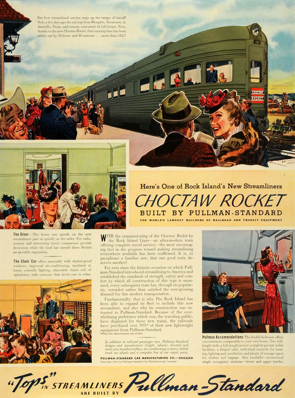 Ad for the then new Rock Island Choctaw Rocket streamliner built by Pullman-Standard.